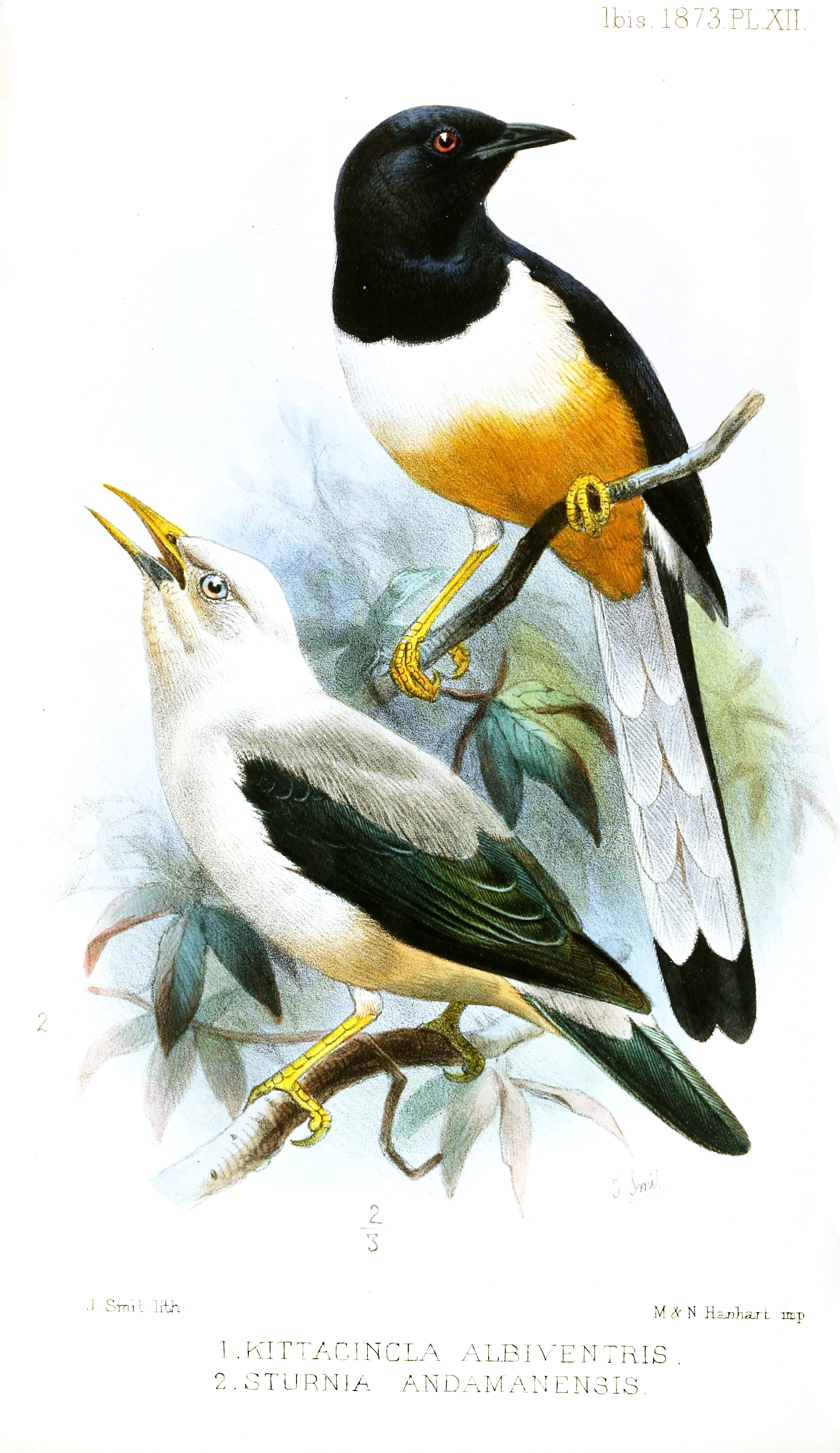 « Kittacincla albiventris » = Copsychus albiventris (Andaman Shama) « Sturnia andamanensis » = Sturnia erythropygia andamanensis (Subspecies of White-headed Starling)